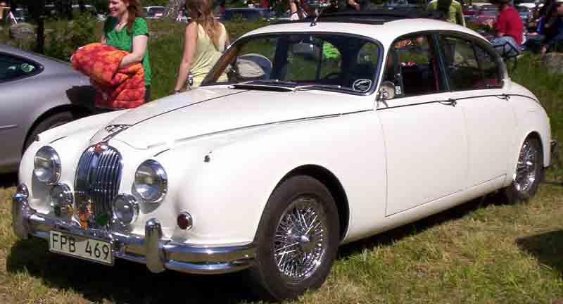 Jaguar Mark II 3,4-Litre 4-Door Saloon 1966